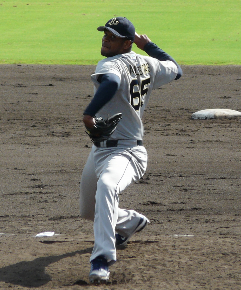 OB-Freddy-Ballestas20110924